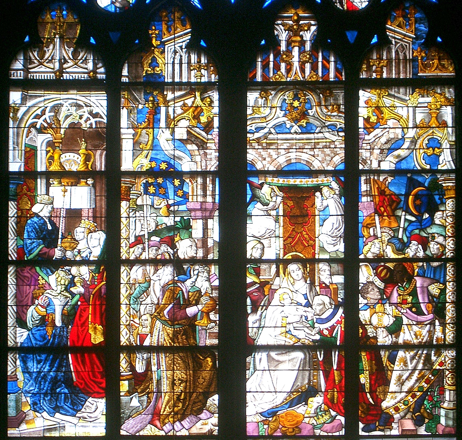 Cologne Cathedral, Germany. Street address: Domkloster 4 Detail of stained glass window in northern aisle "Dreikönigsfenster", created 1507-09.